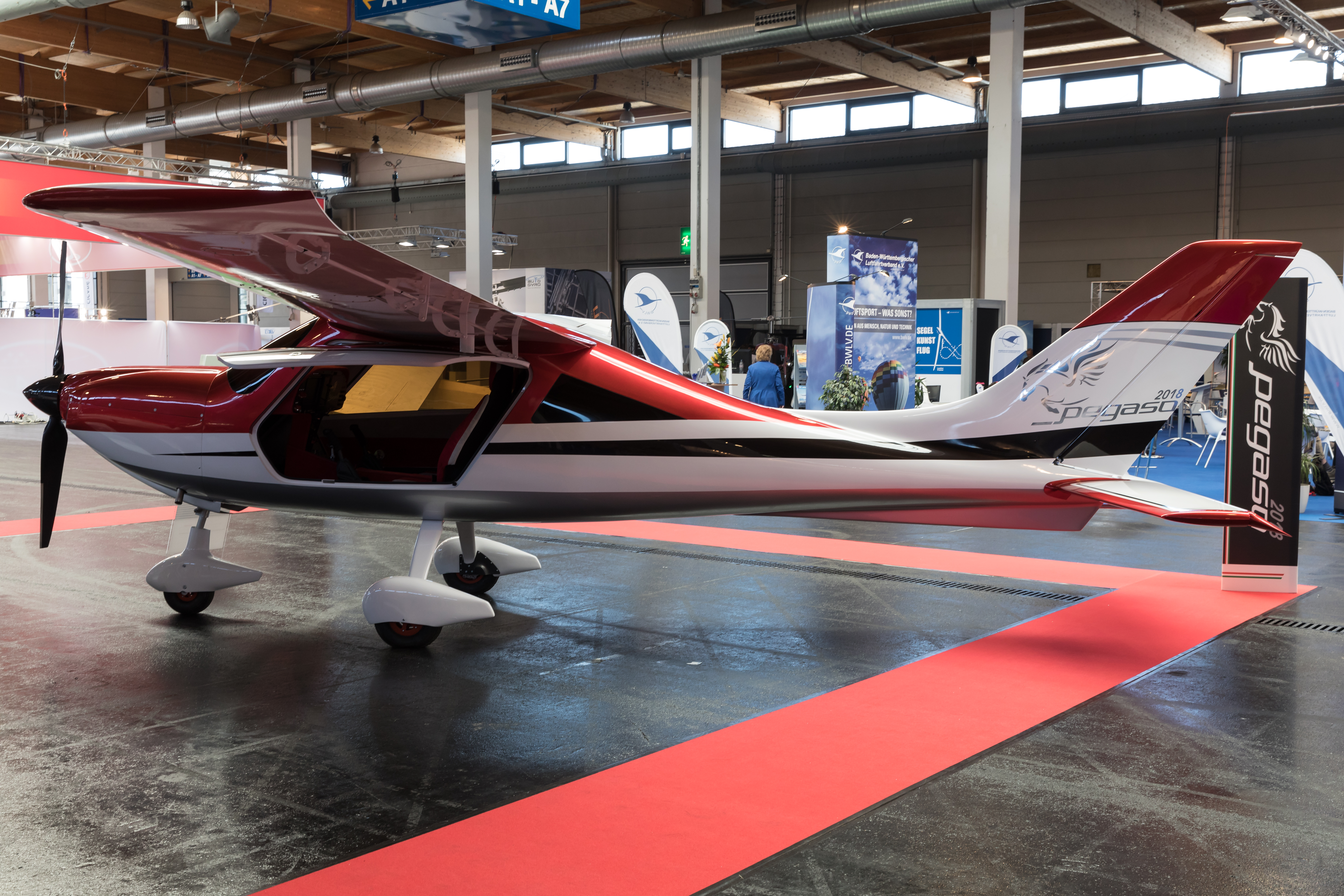 AERO Friedrichshafen 2018